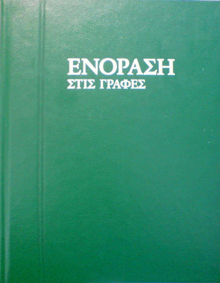 Cover of the 2-volumes Insight on the Scriptures, Greek edition, 2008. (Watchtower Bible and Tract Society)